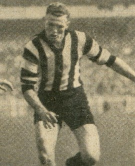 Photograph of Alan Williams in 1938-1945